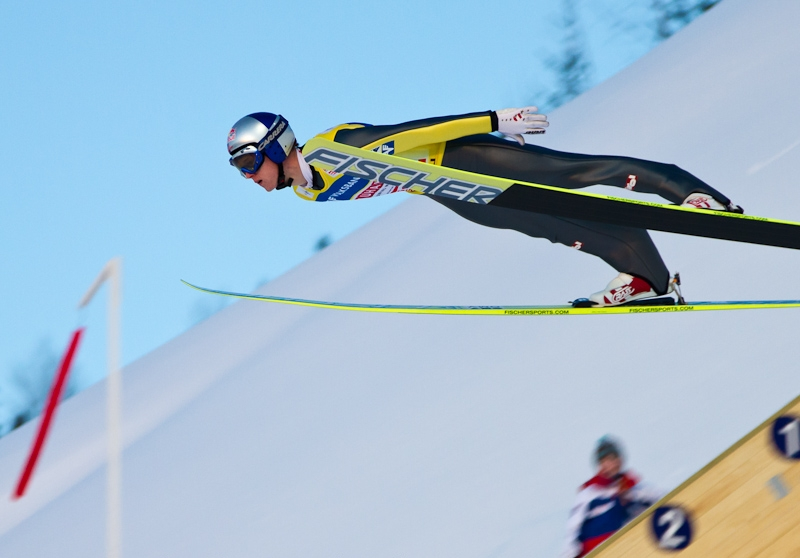 Thomas Morgenstern, who secured the World Cup 2010-2011 victory in Vikersund